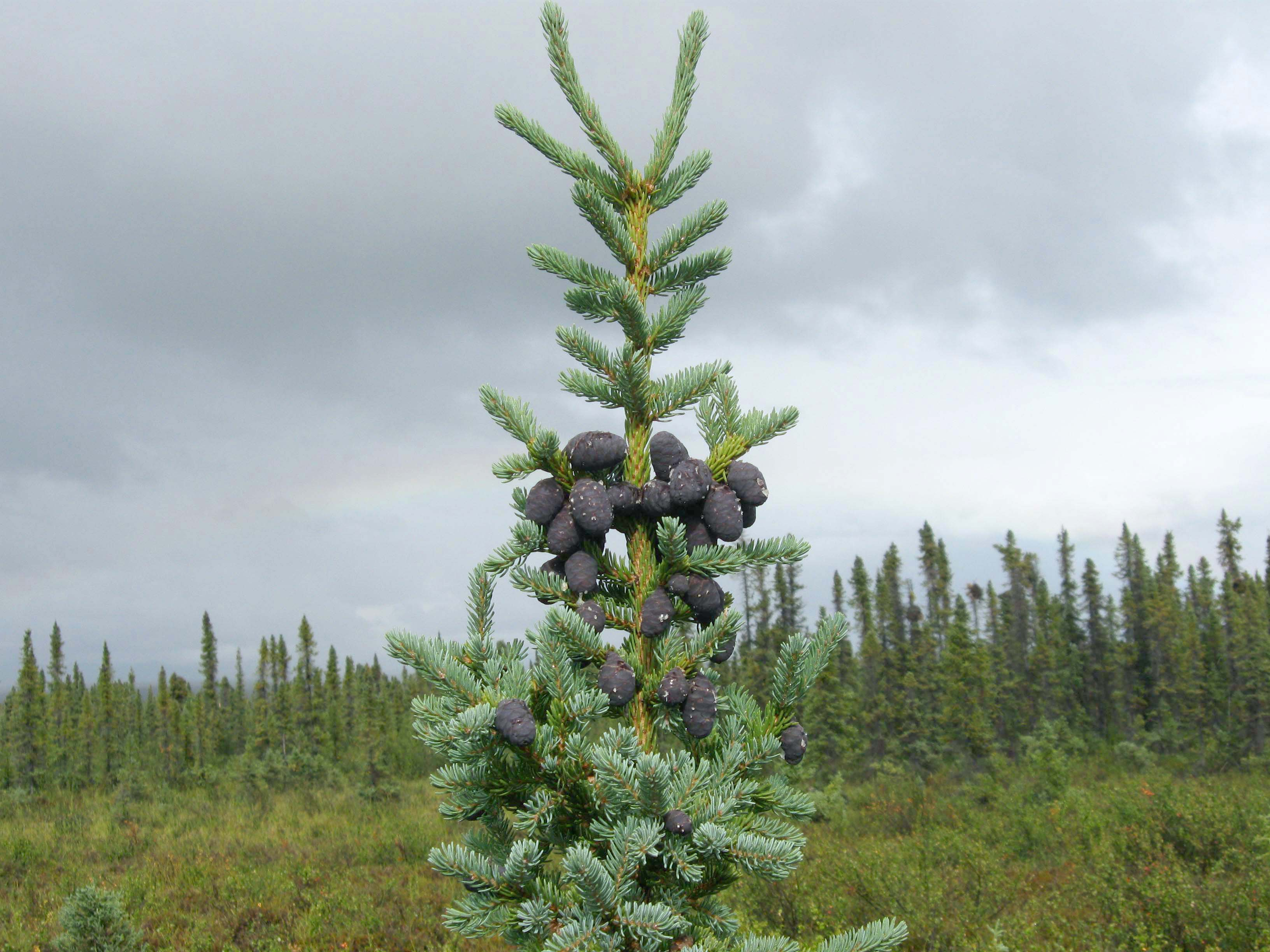 Black Spruce Picea mariana with new purple cones clustered at the top, in the boggy forest south of the Kobuk River, Alaska.